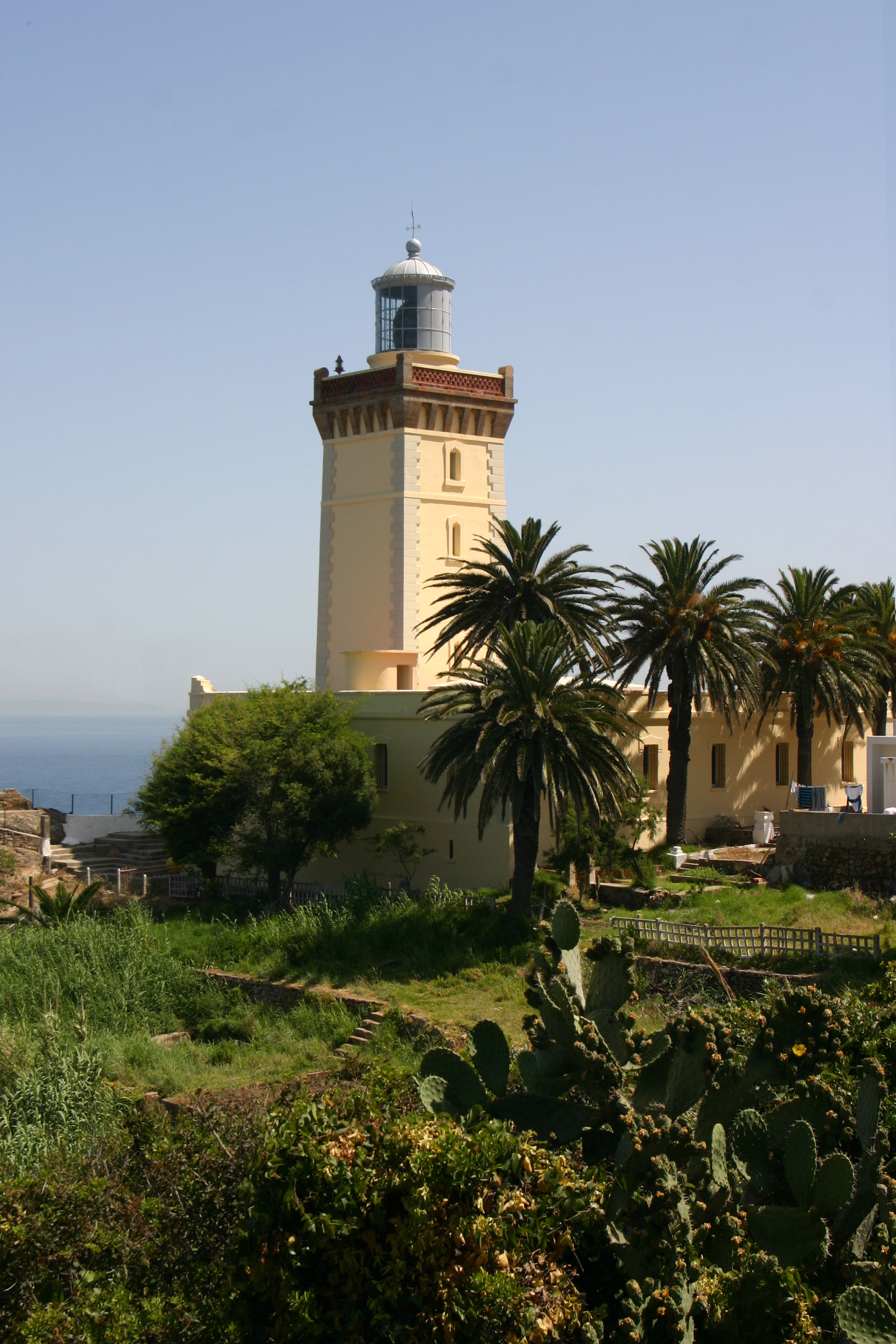 A Moroccan Lighthouse on a June Morning on Cape Spartel